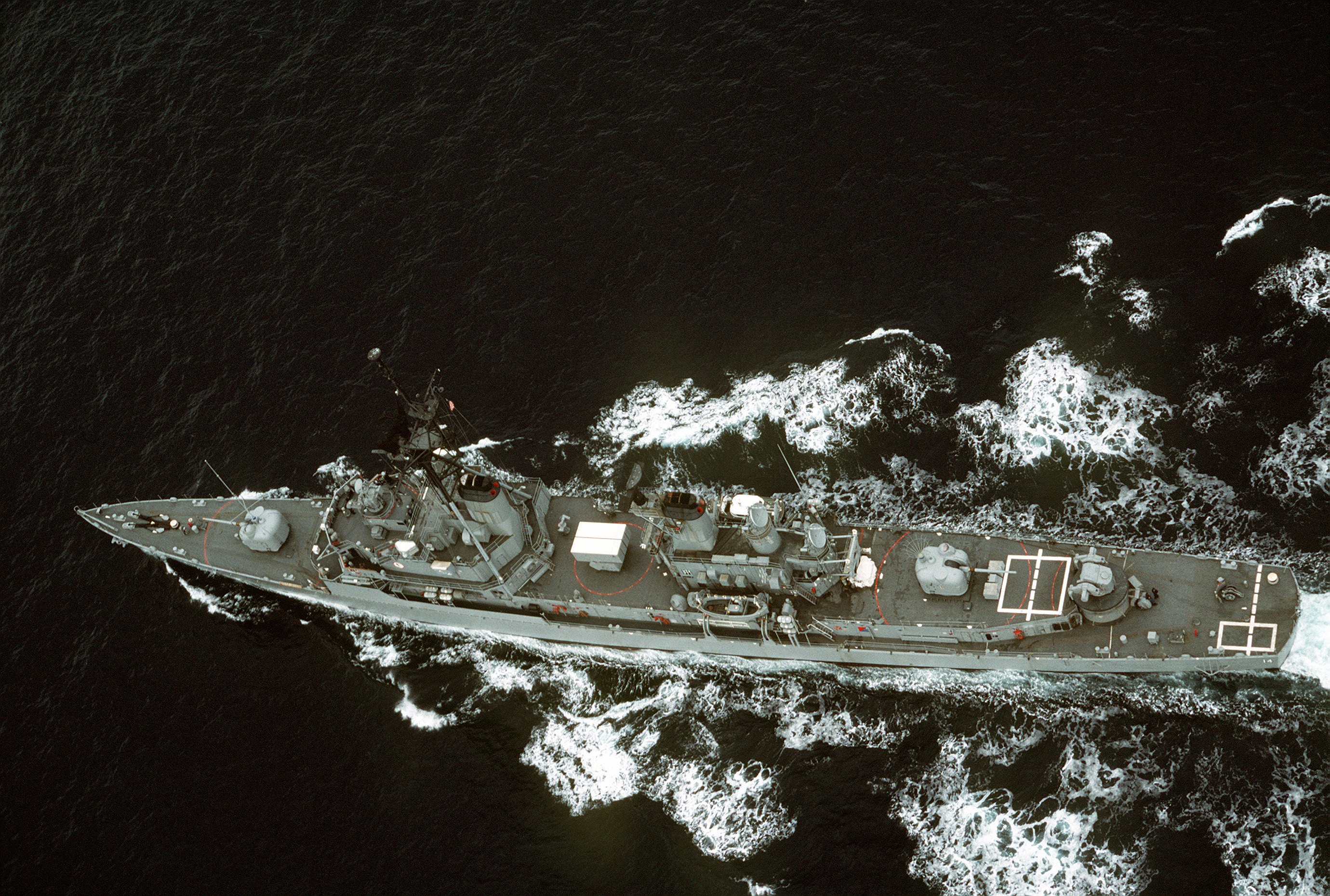 An overhead view of the U.S. Navy guided missile destroyer USS Buchanan (DDG-14) underway in the Pacific Ocean, in 1990.